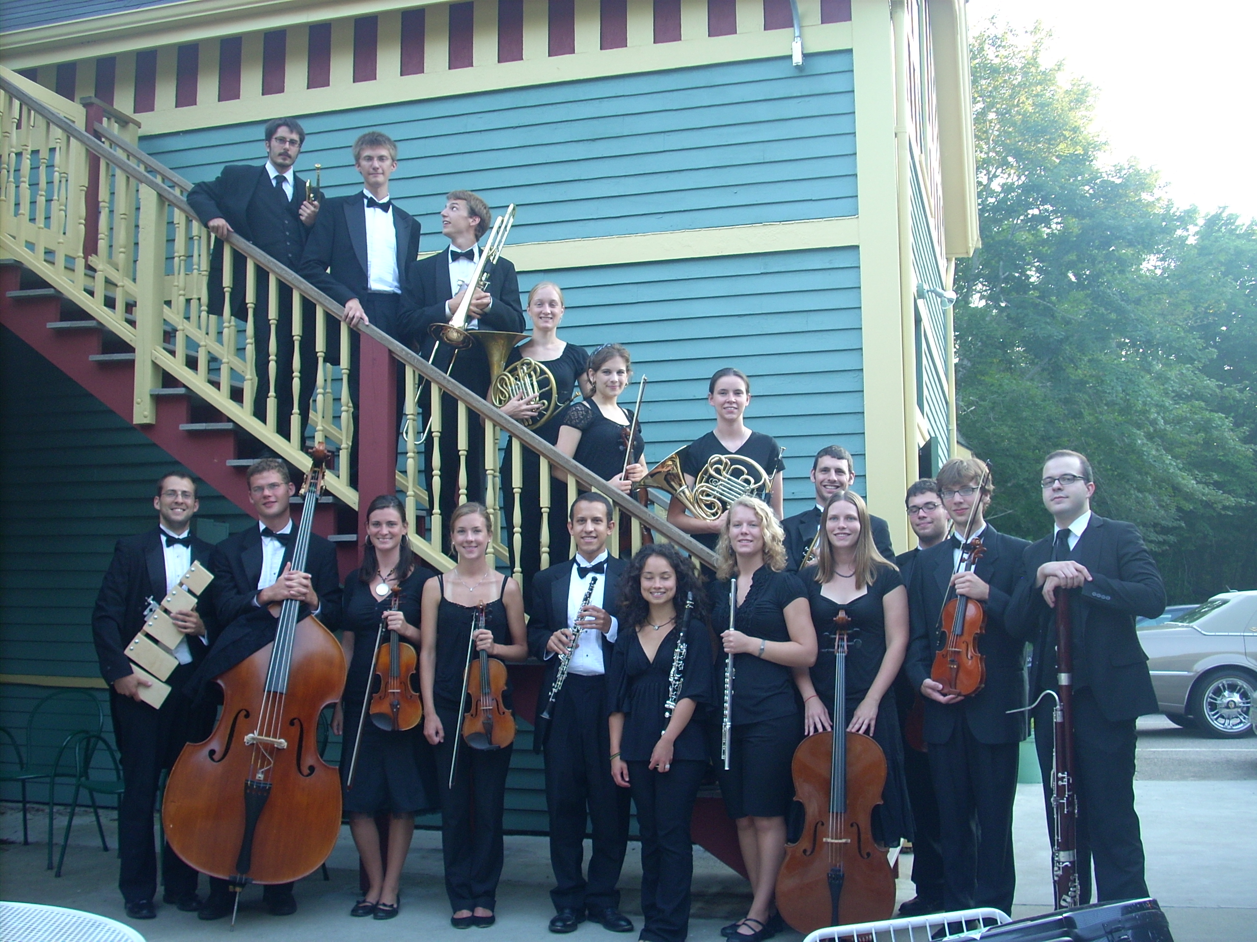 College Light Opera Chamber Orchestra